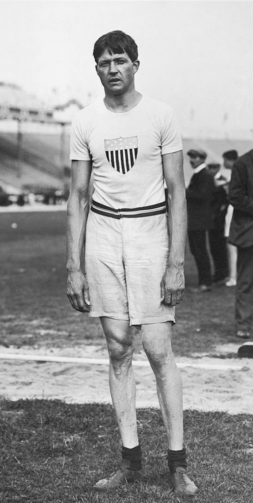 US athlete Ray Ewry, 20th July 1908. Ewry won the gold medal for the (standing) high jump at the London Olympics of 1908.